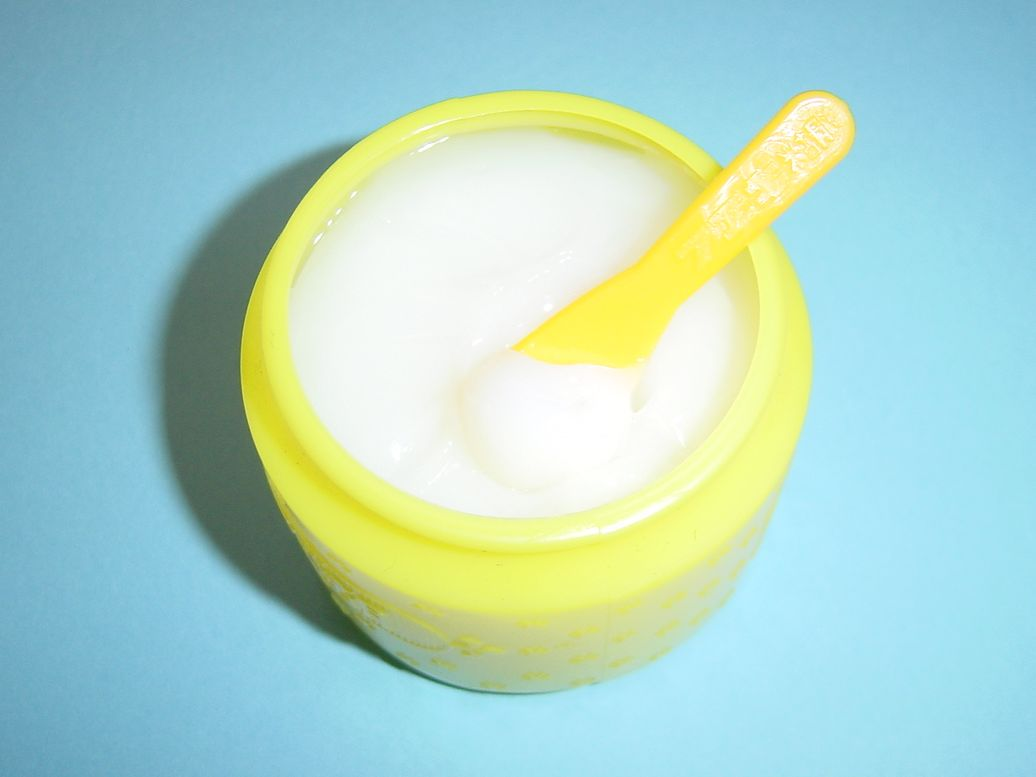 Adhesives, Starch adhesives